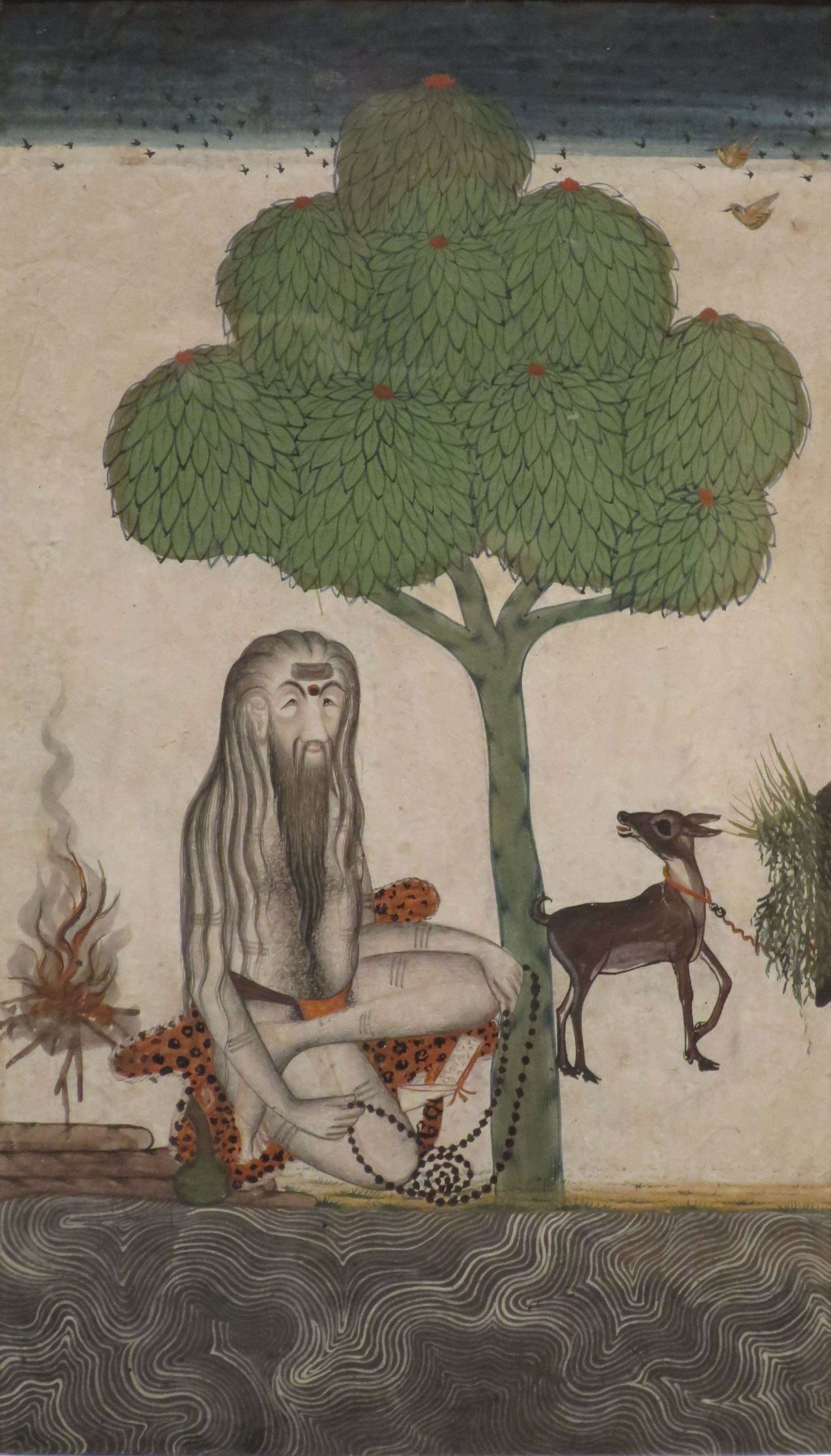 The Sage Kashyapa Meditating under a Tree, 1756, watercolor on paper, Honolulu Museum of Art accession 10822.1